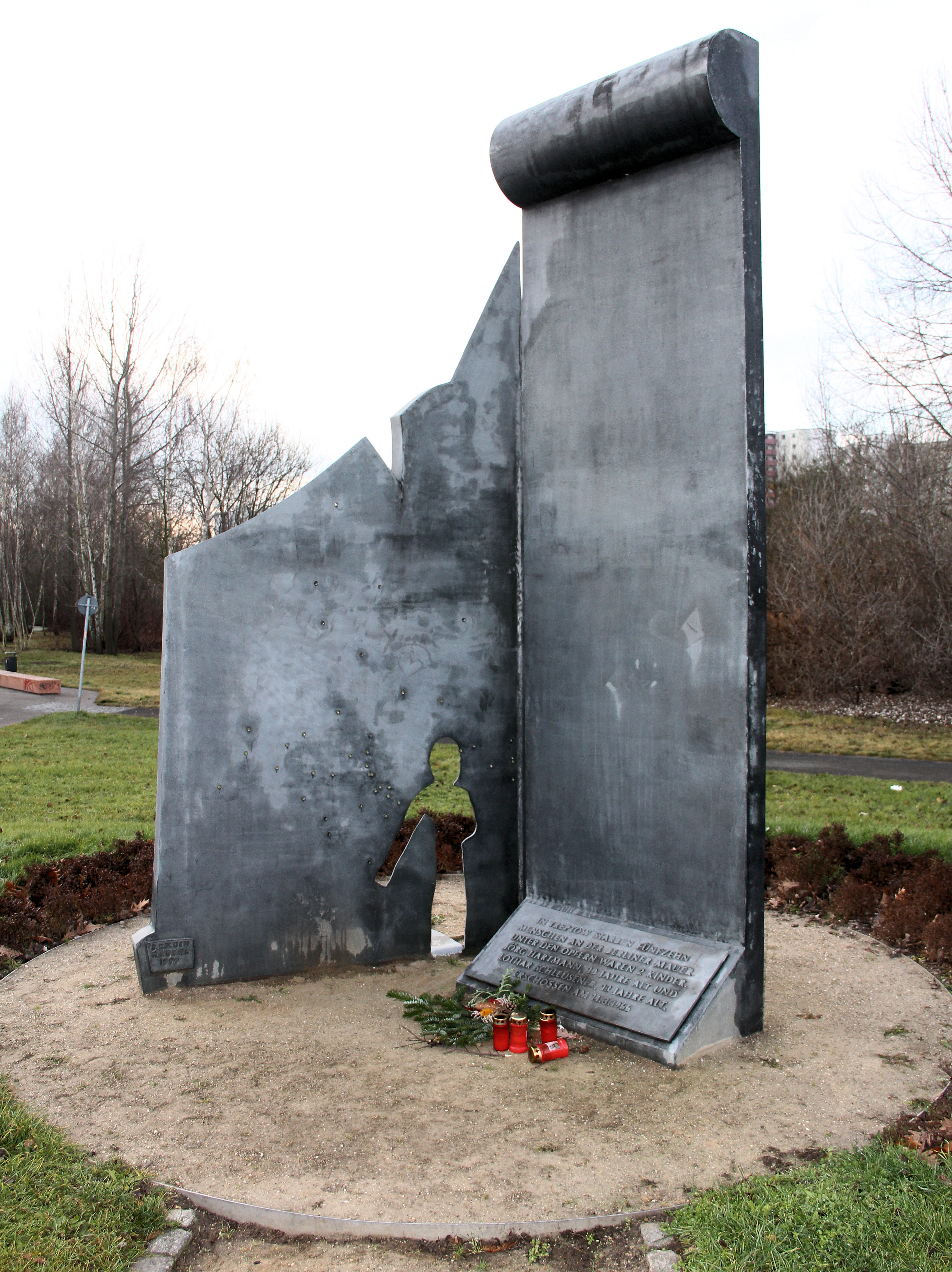 Memorial, "Jörg Hartmann und Lothar Schleusener" by Rüdiger Roehl and Jan Skuin, 1999, Kiefholzstraße 333, Berlin-Plänterwald, Germany